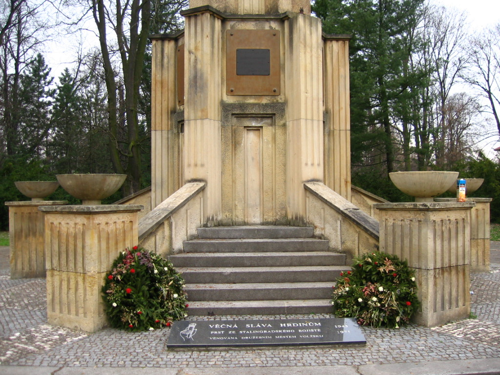 Red Army memorial column in Olomouc, Czech Republic